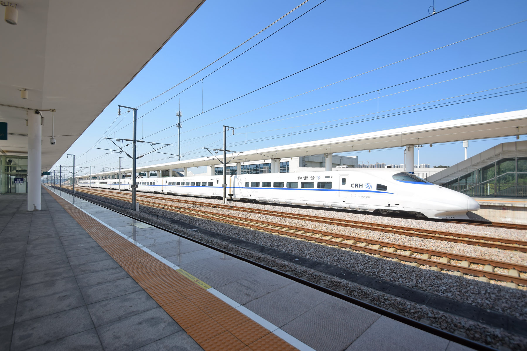 D2815 CRH2A-2403 EMU was stopping at Guiyang-Guangzhou High-Speed Railway Platform of Sanshui Nan (South) Railway Station, view towards Zhaoqing Dong (East) Railway Station.